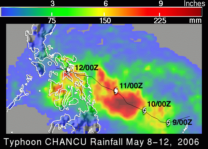 Total rainfall from Typhoon Chanchu (2006) from May 8 to May 12. From